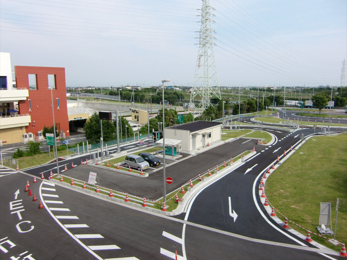 Enshu-toyoda parking area Tomei expressway